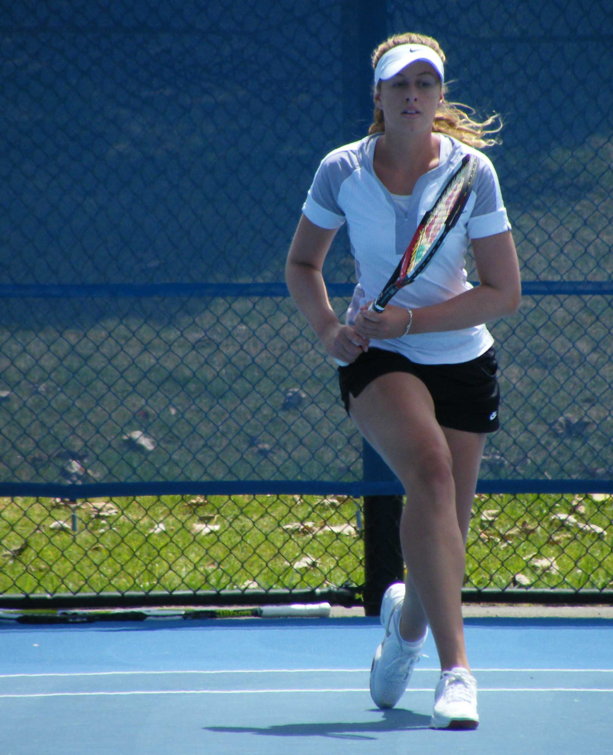 Tyra Calderwood of Australia - NSW Open January 2009.